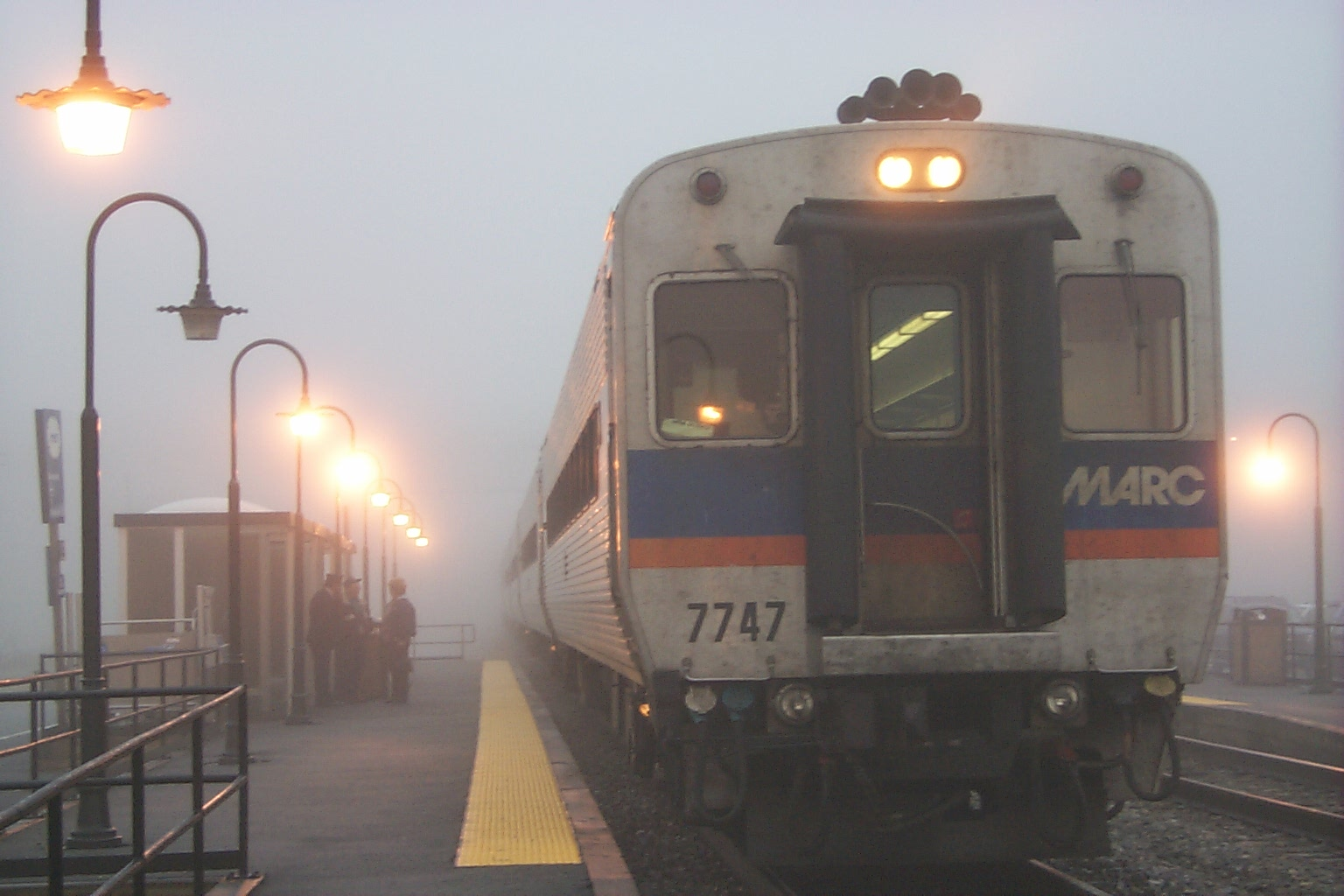 MARC commuter train conductors catching up with local news on a foggy morning at the Brunswick, Maryland station